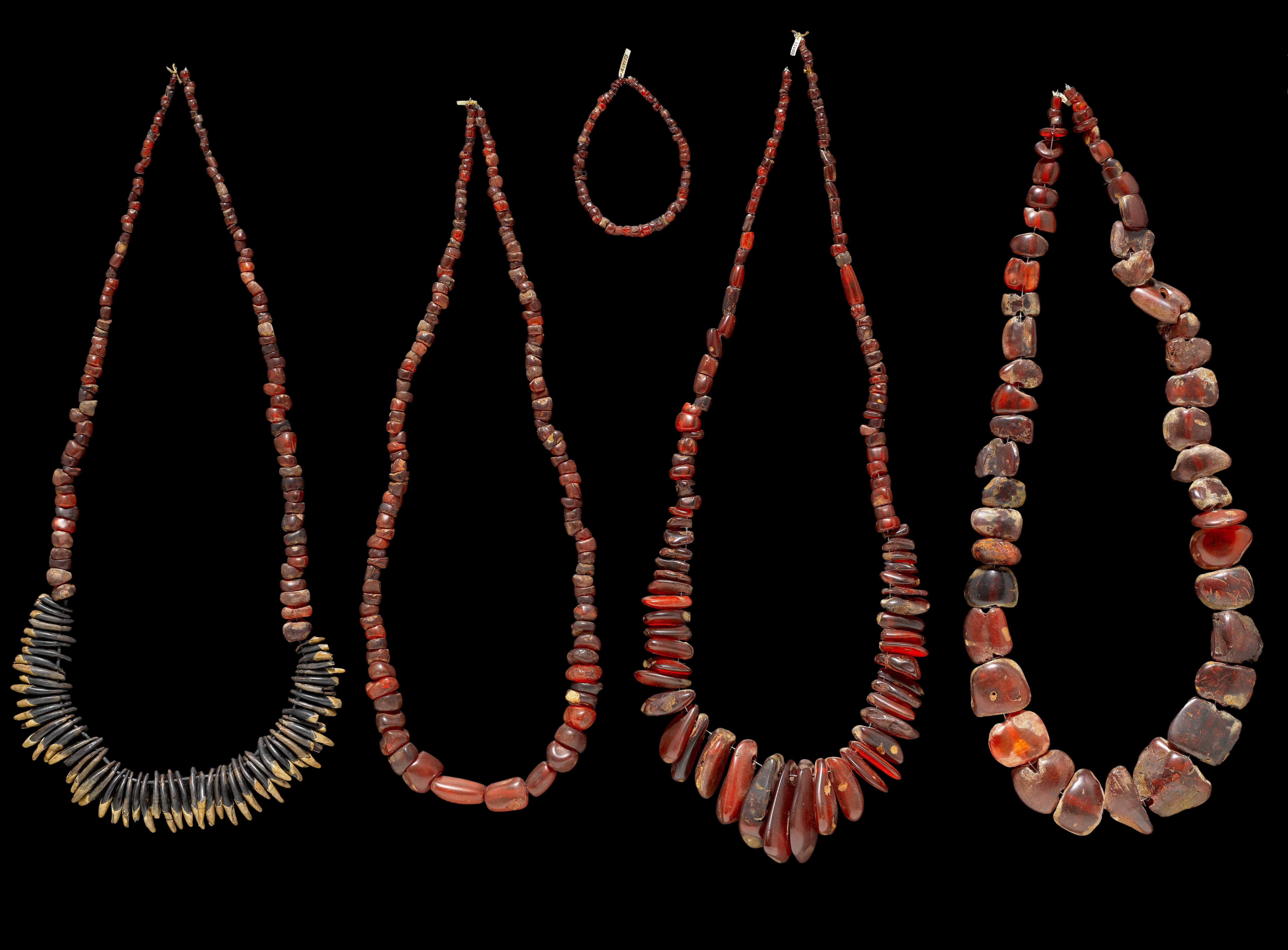 amber neckless, (A28153)